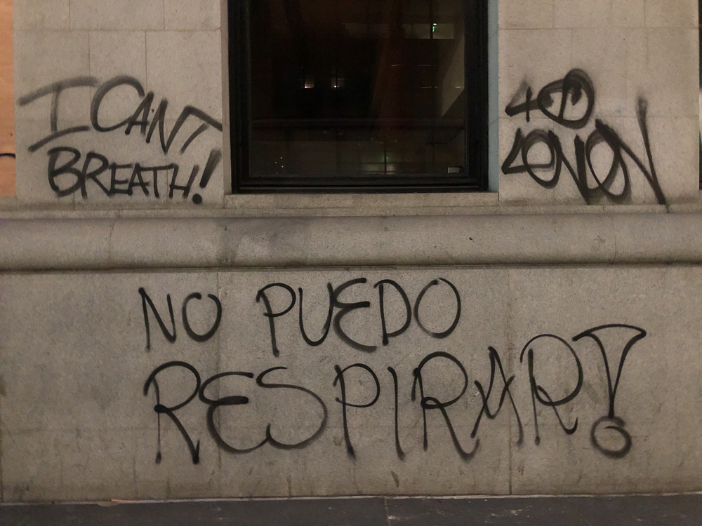 2020/05/29 BlackLivesMatter GeorgeFloyd Protest Oakland, California BlackLivesMatter #GeorgeFloyd #BigFloyd #Oakland #California AbolishThePolice #Justice4Floyd #JusticeforGeorgeFloyd #OPD #RiotPolice OscarGrantPlaza #14&Broadway